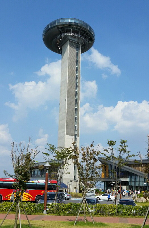 Tidal Power Culture Pavilion & Moon Tower in Sihwa Lake Tidal Power Station